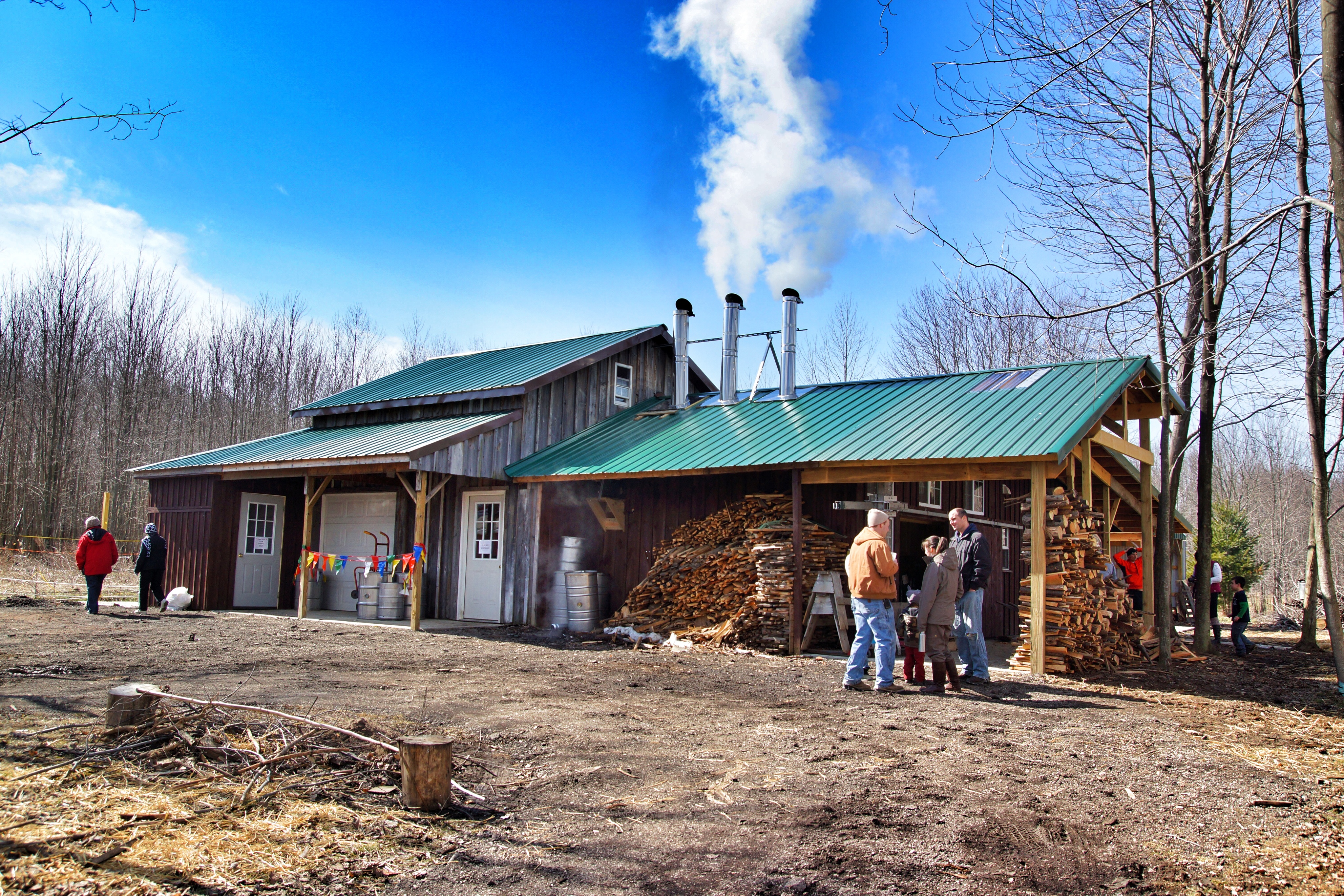 Agricultural shed on a farm at the southern end of Higley Road in Hartsgrove Township, Ashtabula County, Ohio, United States.